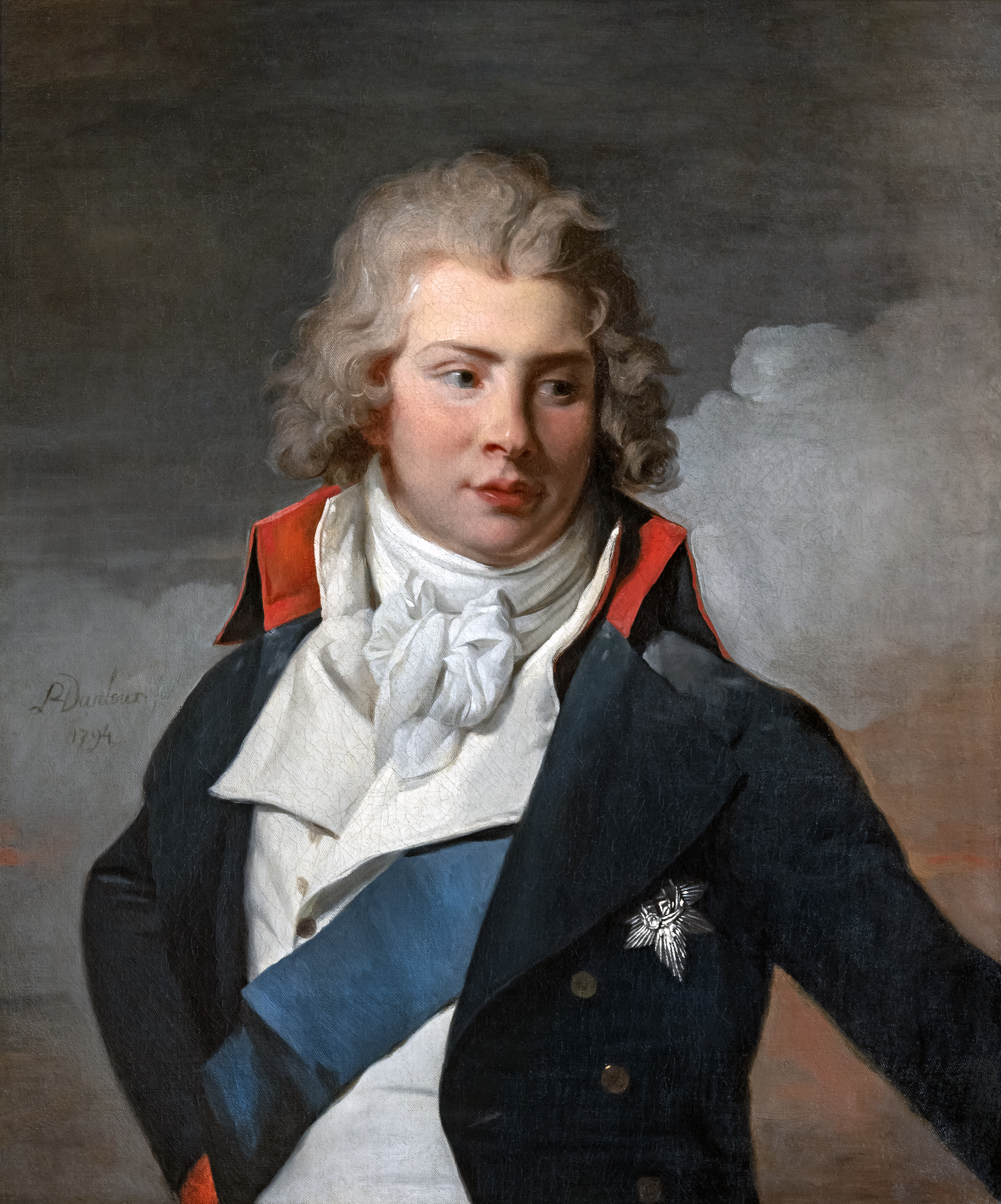 The portrait is that of Prince Auguste Frederic, but unlike the official title of the painting he was Duke of Sussex and the sixth son of King George III.